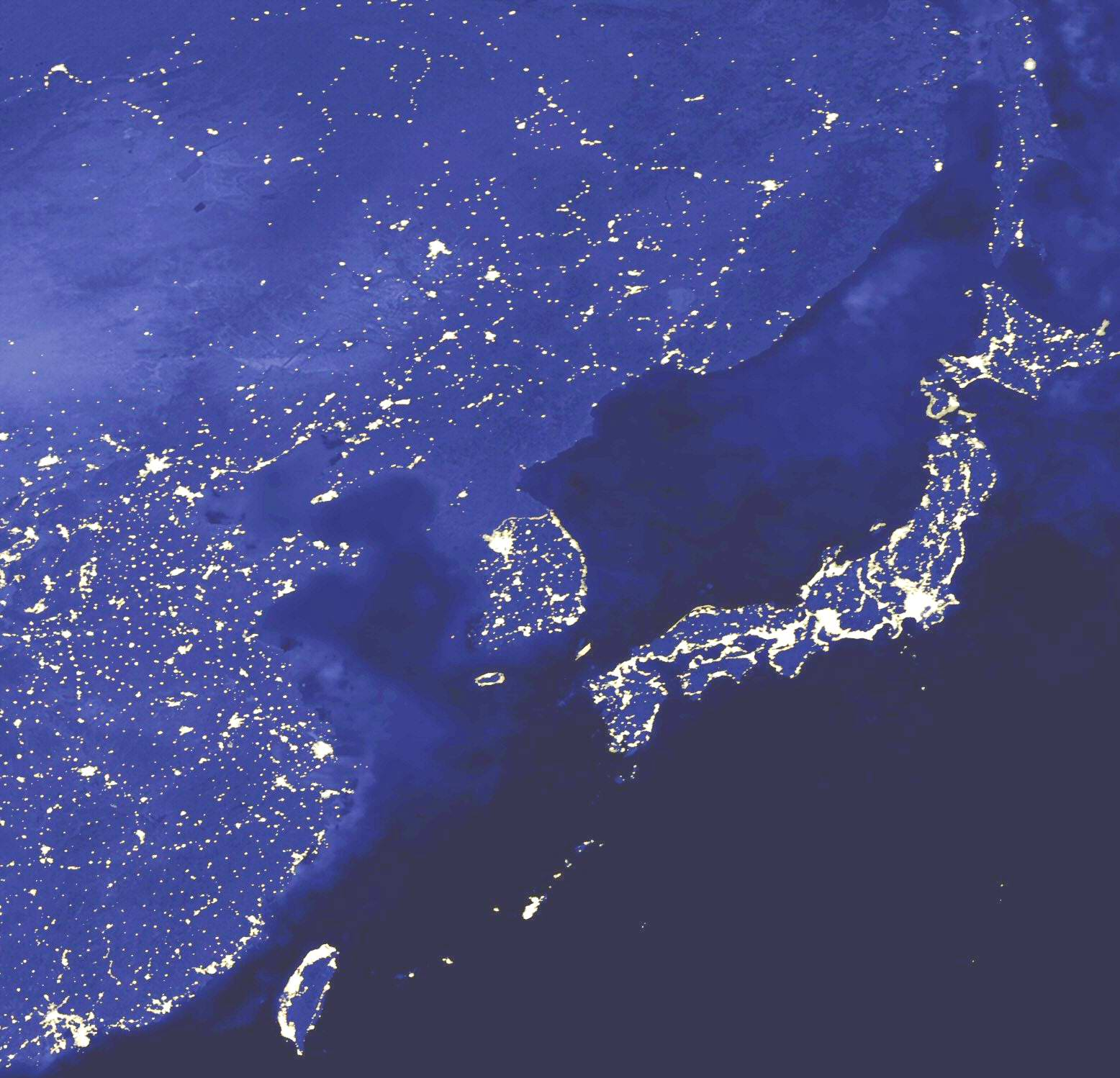 East Asia lights at night.